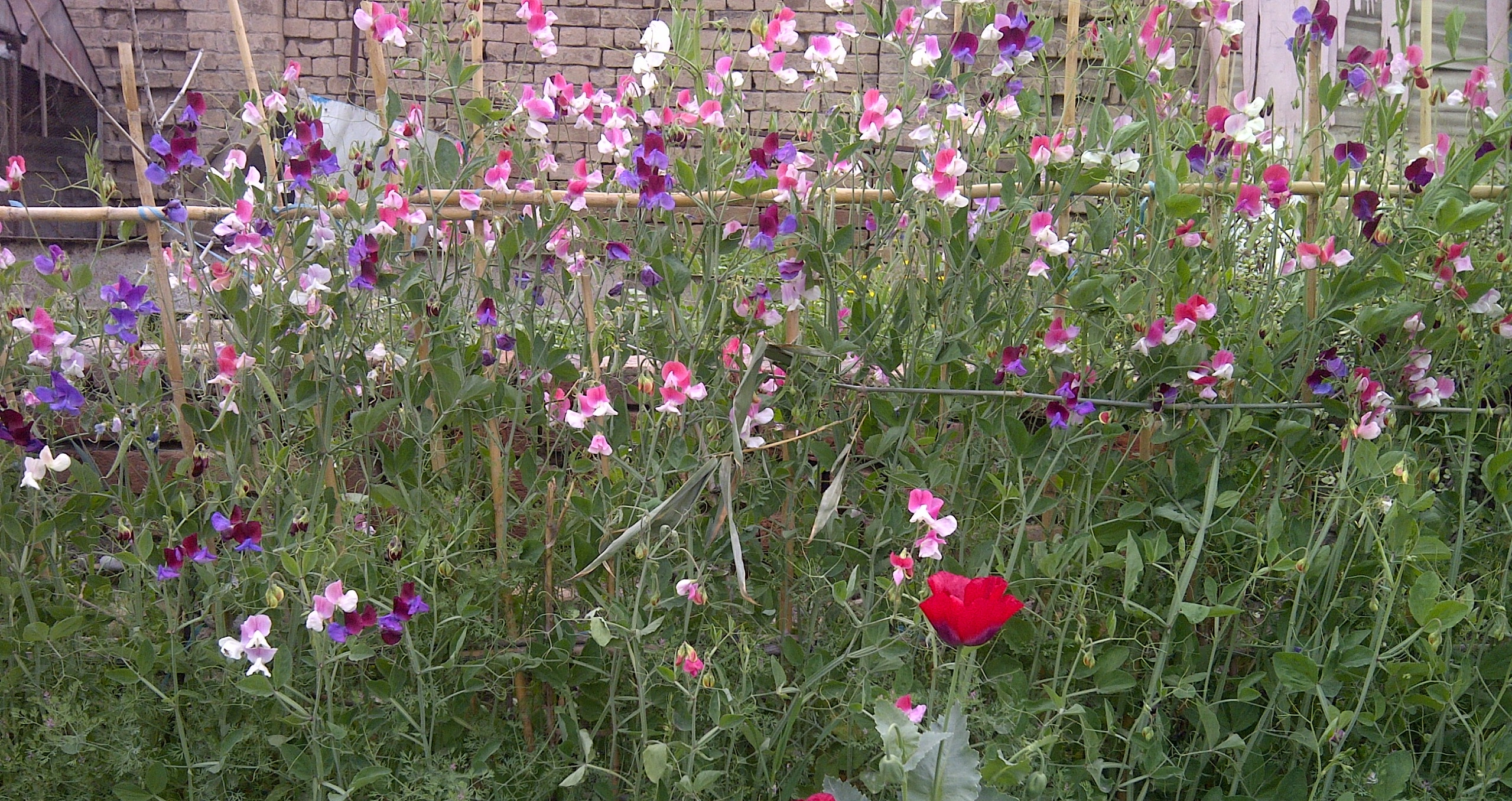 Sweet Pea